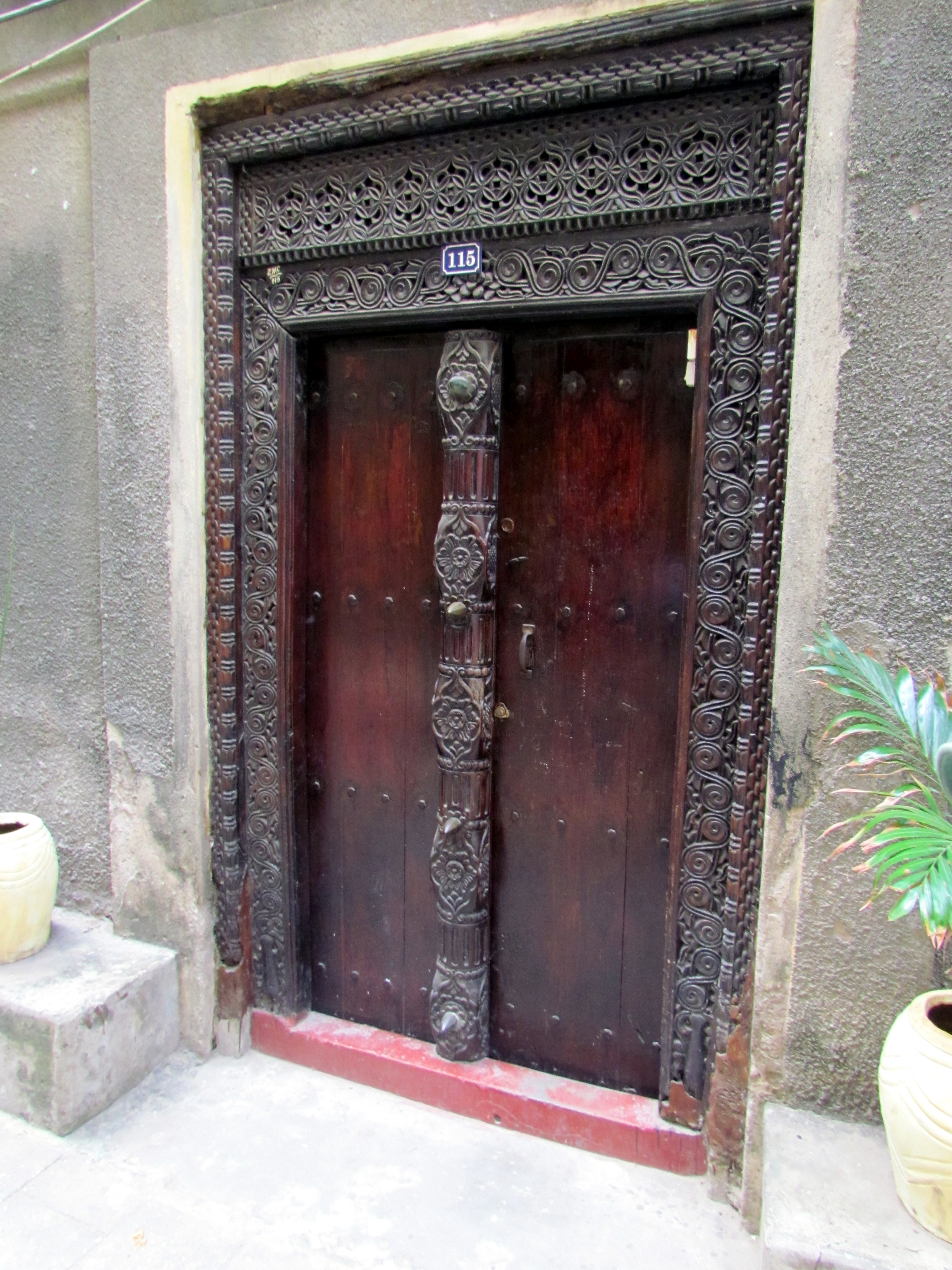 A trip to Zanzibar's Unguja island in February 2011 (cc) David Berkowitz